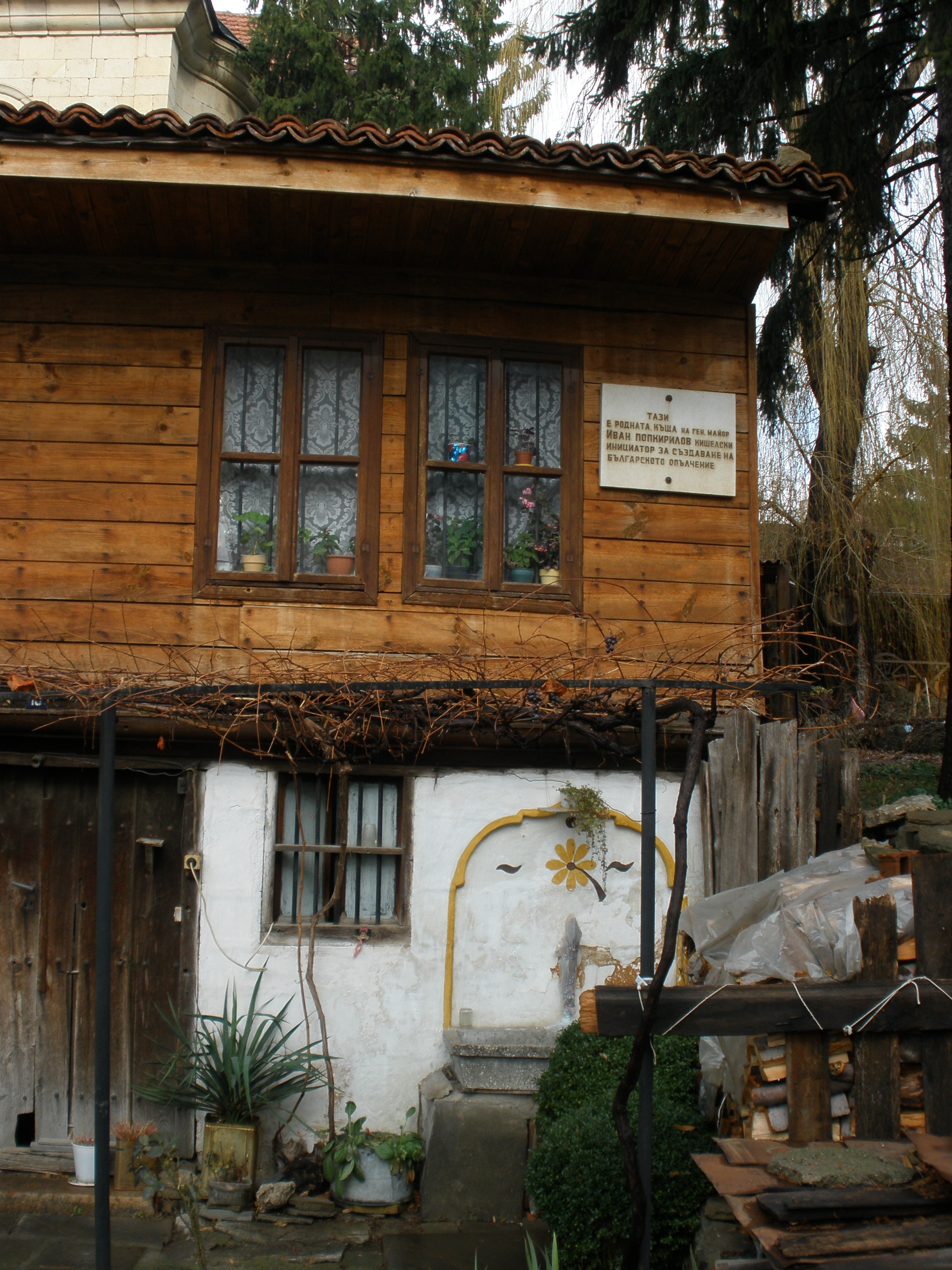 Ivan Kishelski House ин Kotel